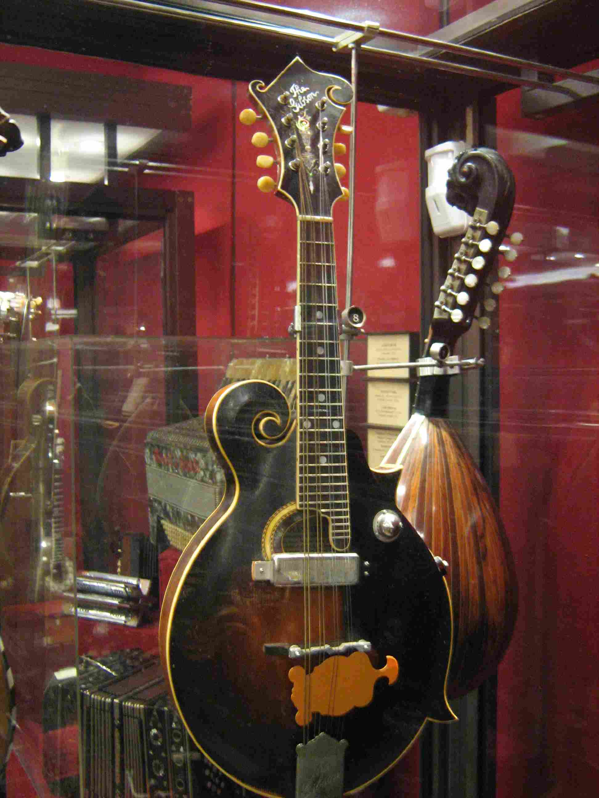 Gibson mandolin with Russian pickup in Glinka's museum Moscow Russia